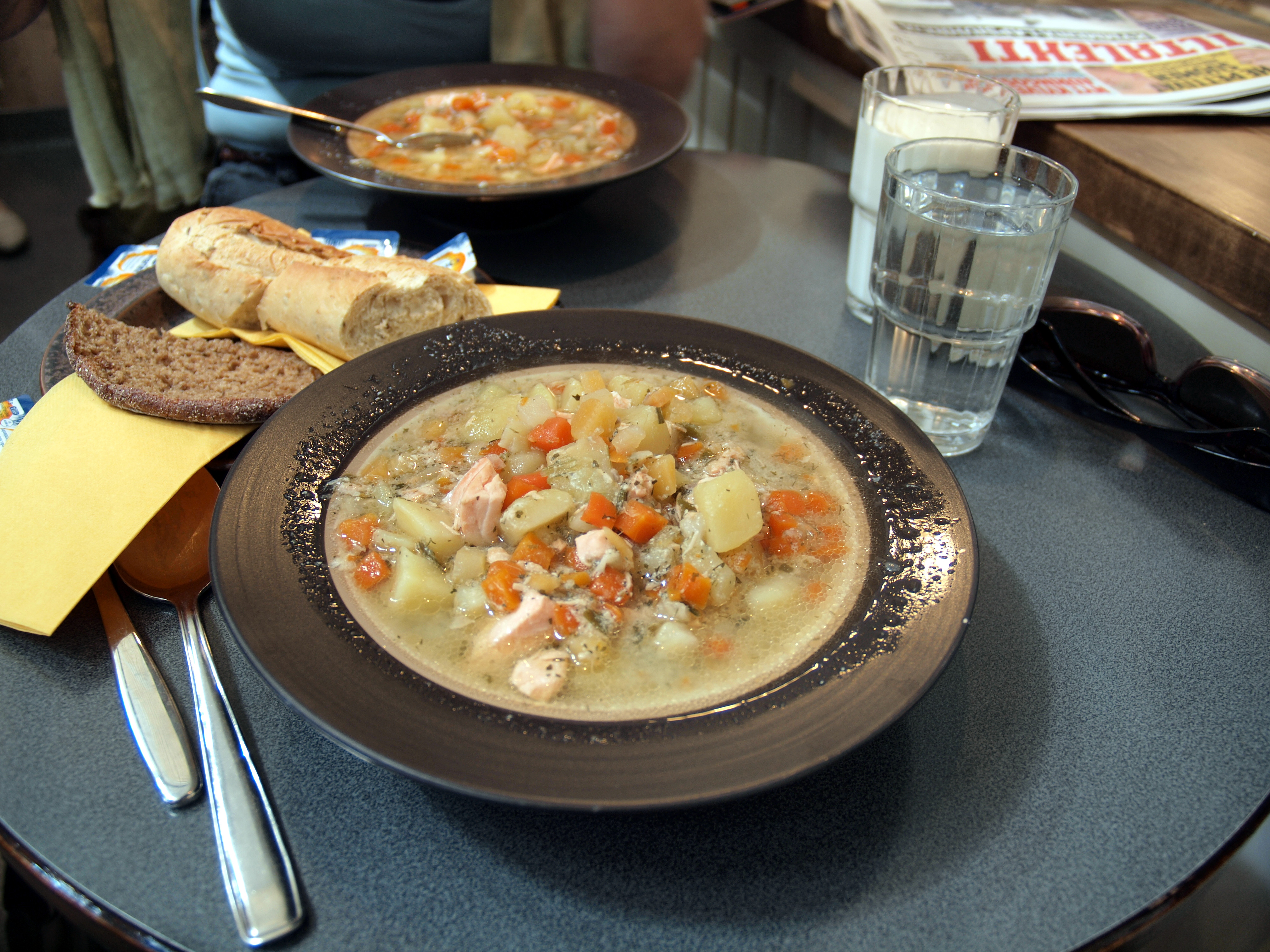 A plate of Finnish fish soup served at a restaurant in the market hall in central Pori, Satakunta, Finland.